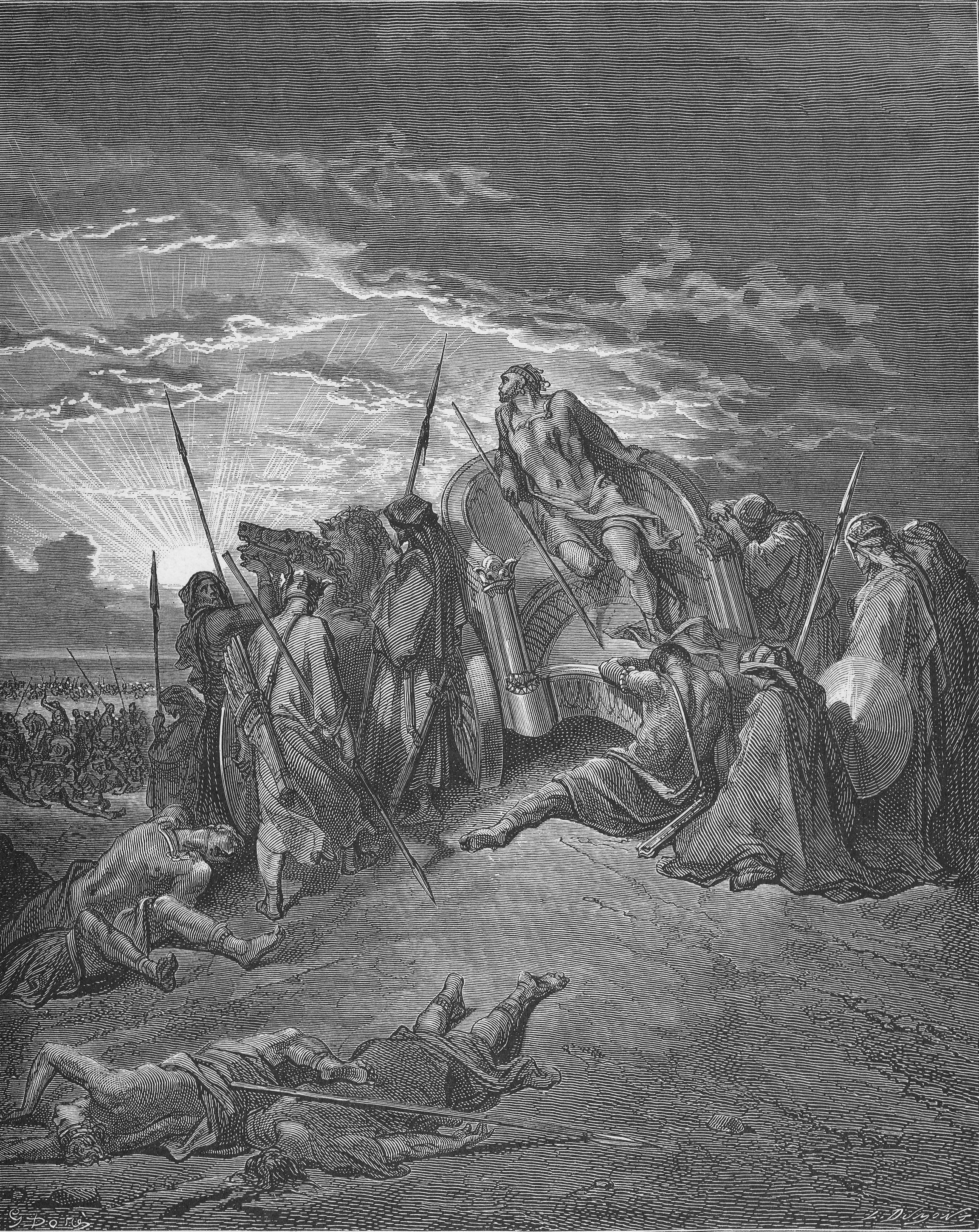 The Death of Ahab (1Kings 22:29-40)